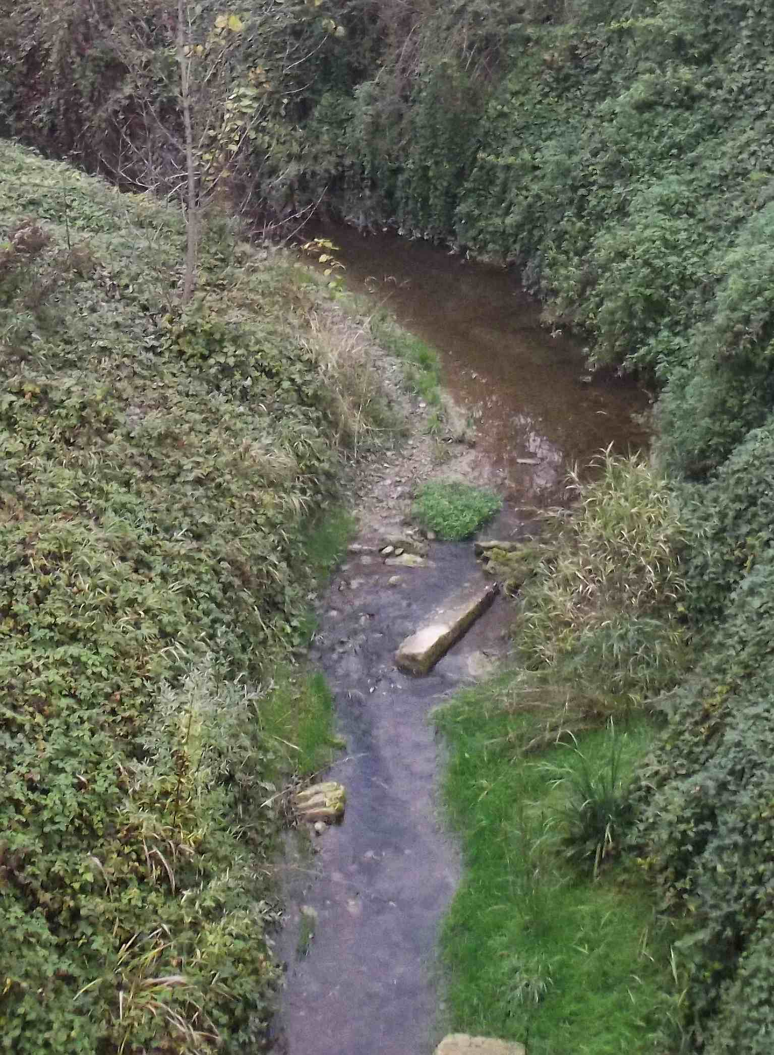 Rio di Valle Maggiore near molino della Torre (TO, Italy)